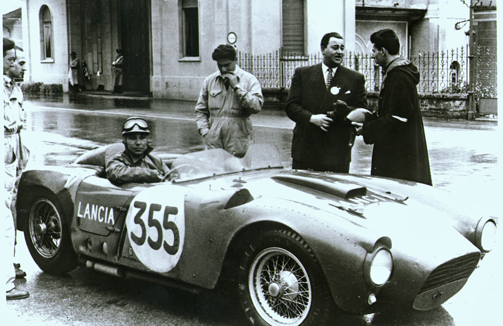 Entry #355 (and WINNER) in Giro di Sicilia on 4 Abrile 1954 is Piero Taruffi driving a Lancia D24 for Scuderia Lancia, whose owner Gianni Lancia is standing behind (in a nice suit, second from right).[1]